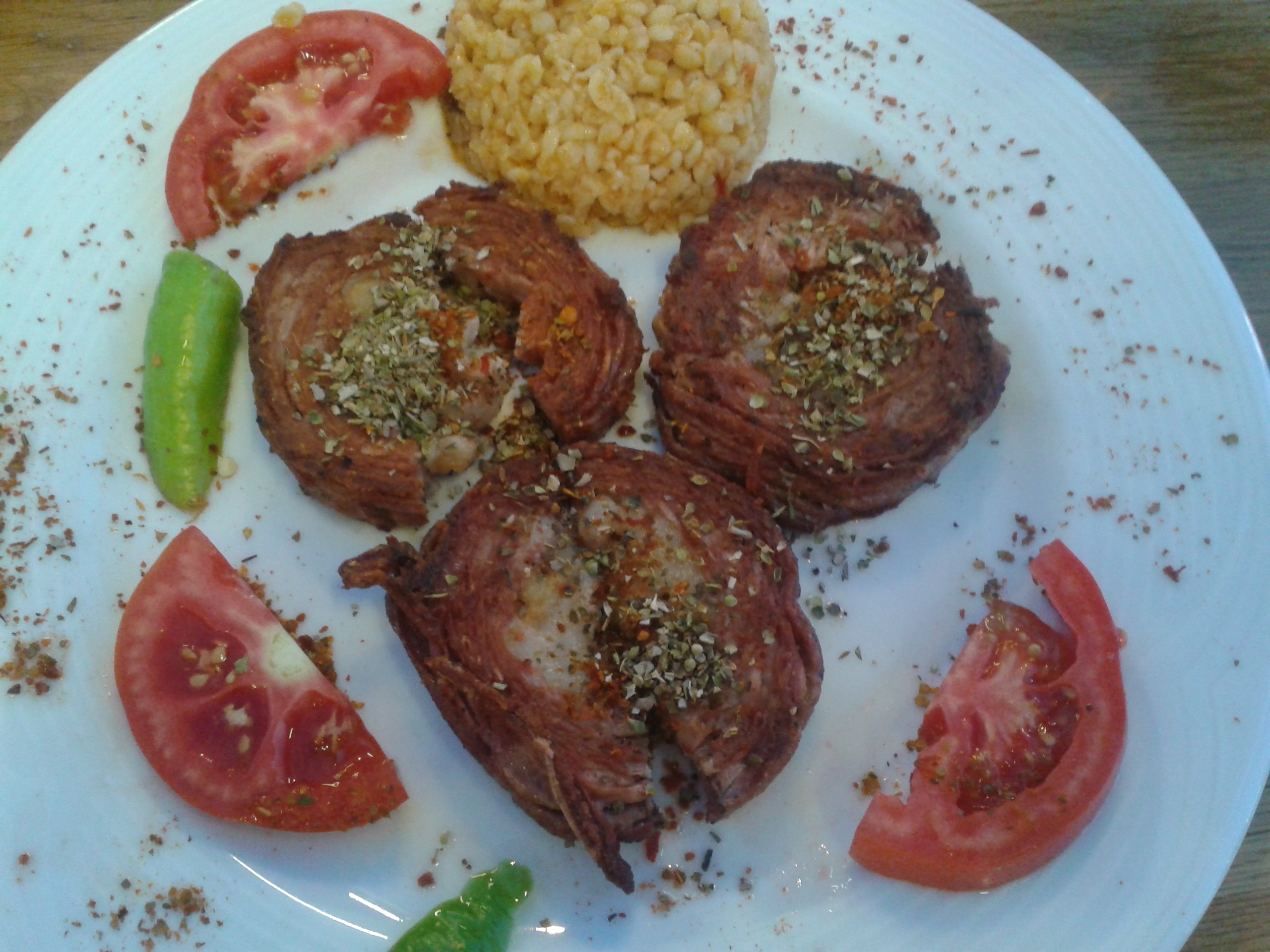 Grilled "kokoreç" and some "bulgur pilavı" as accompaniment.